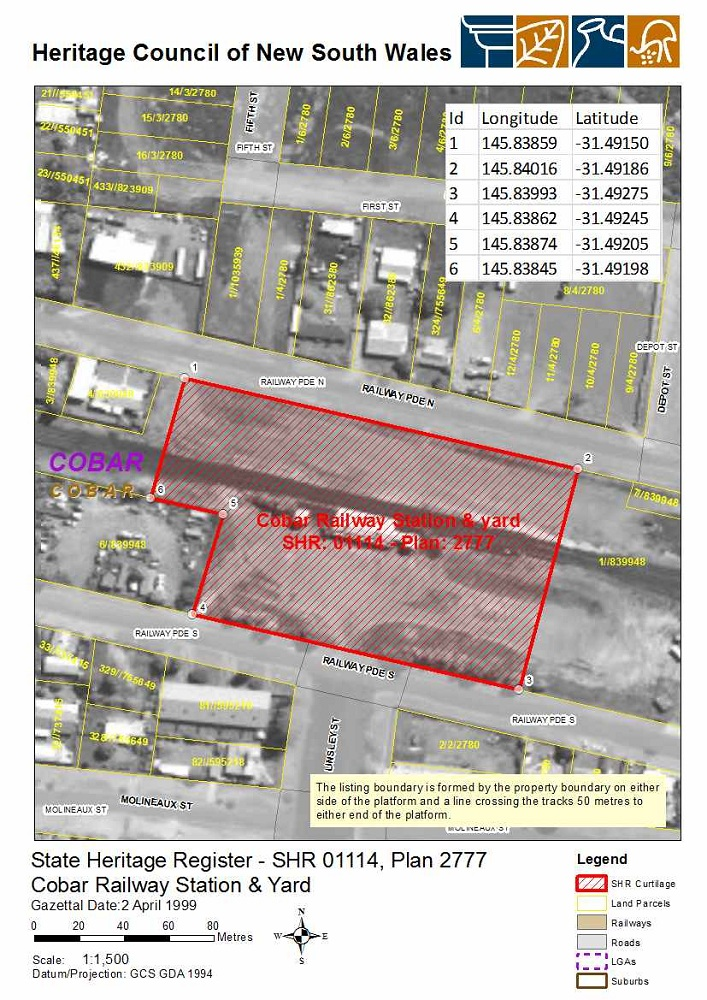 Cobar railway station: SHR Plan No 2775